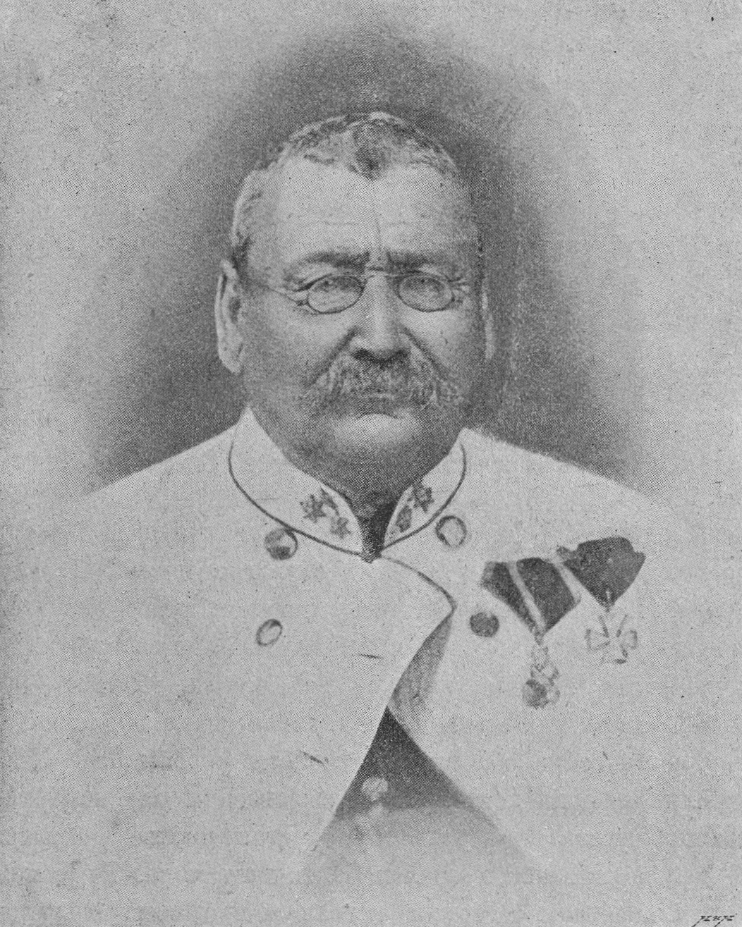 A photograph of captain Adam Kosanić (1802-1875), an officer in the Austrian Imperial Army. Srpski (latinica): Fotografija kapetana Adama Kosanića (1802-1875), oficira u austrijskoj carskoj vojsci.